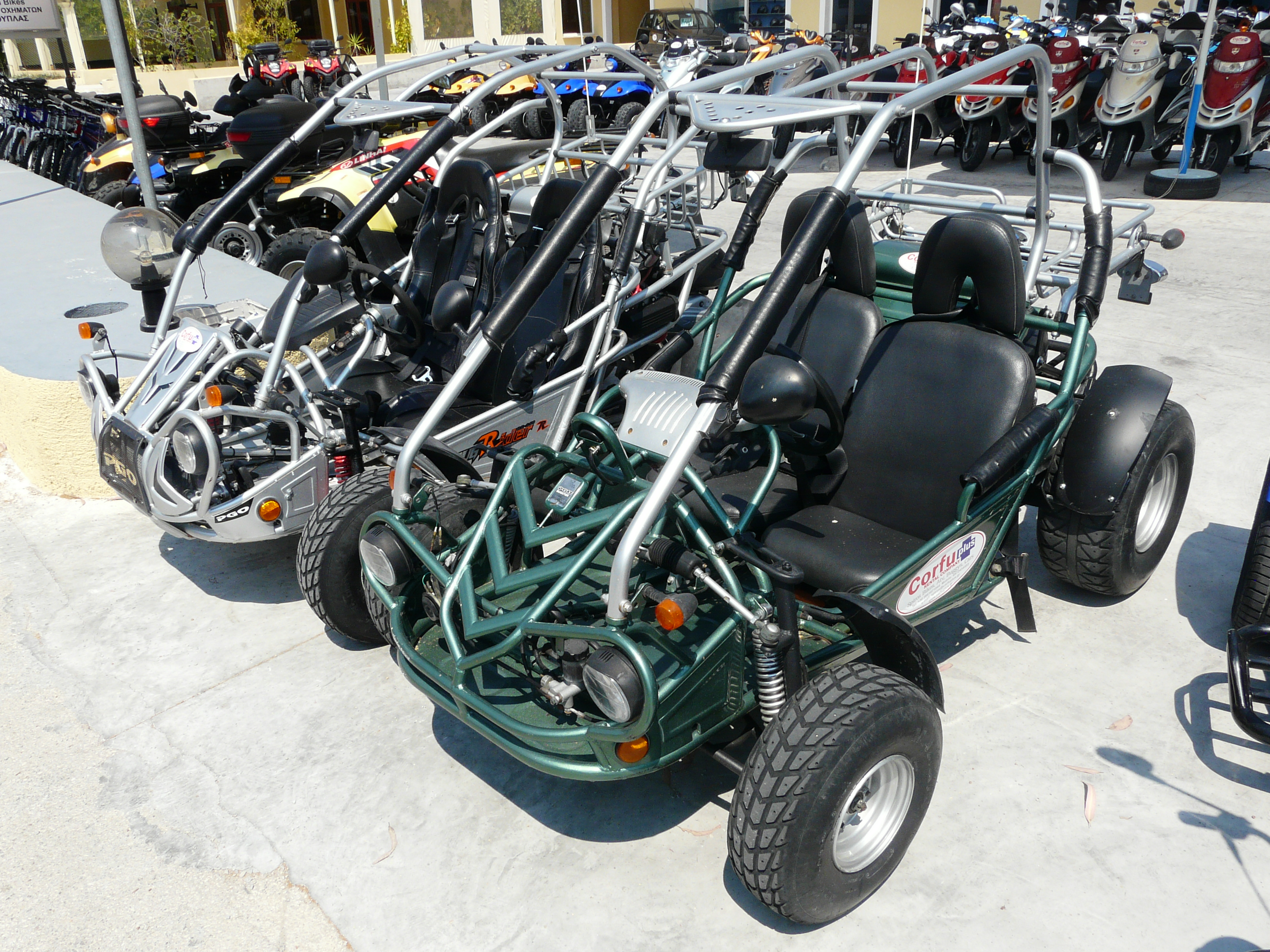 Corfu. Beach or close neighbourhood.